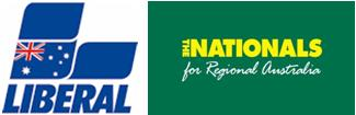 Liberal Party of Australia, National Party of Australia logos combined (Coalition parties).